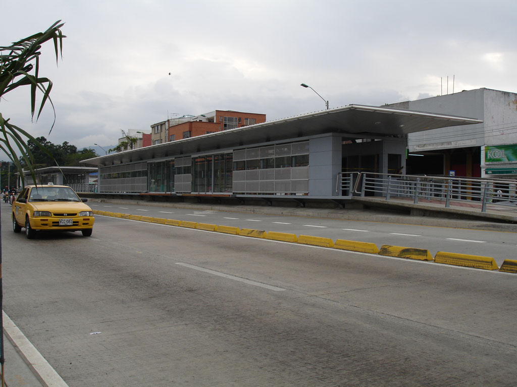 Station of the Transportation System "MIO" in Cali, Colombia